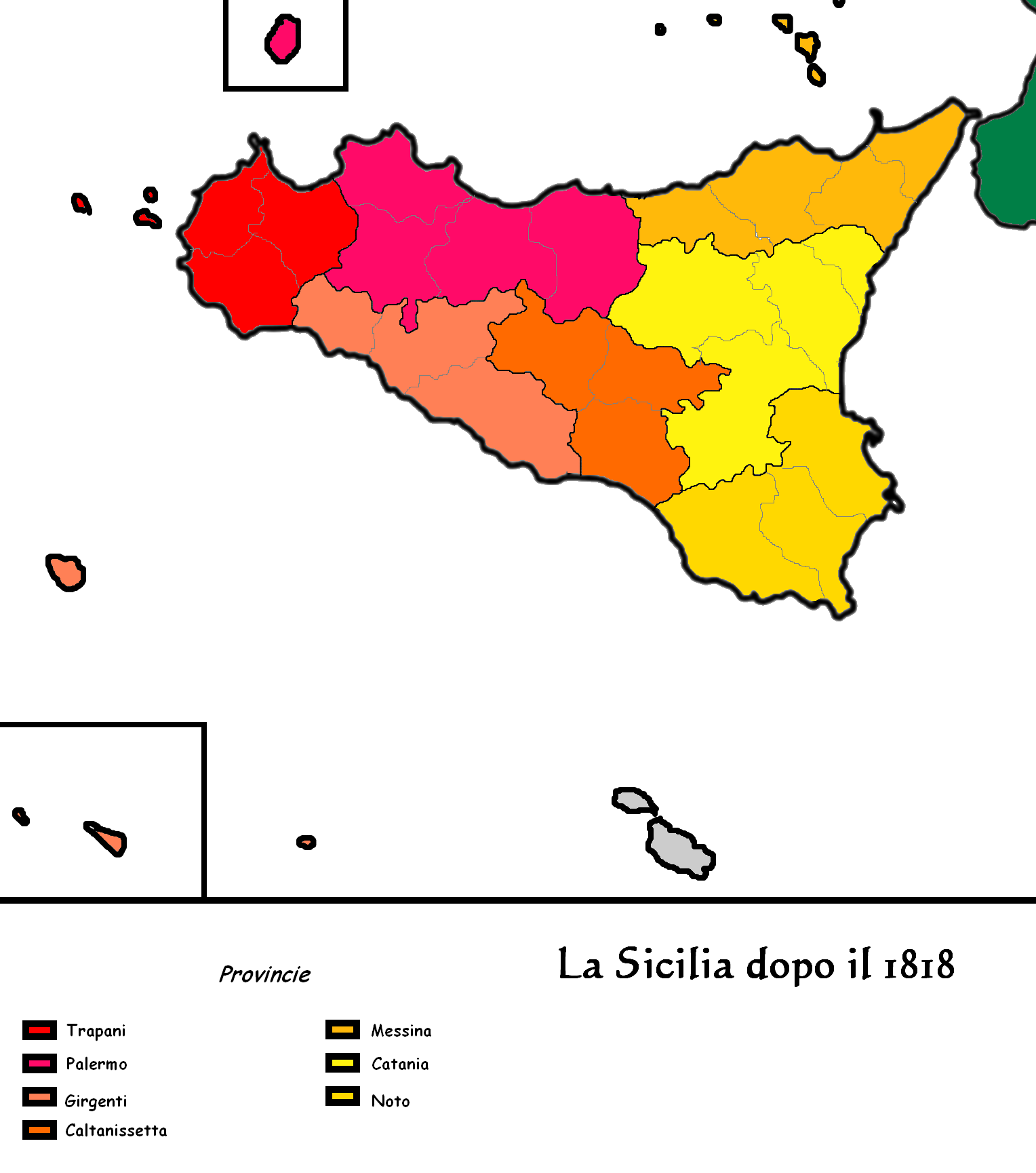 Administrative Map of Sicily during the Borbone kingdom. Source: Marzolla, Carta delle Due Sicilie (1842-1858)